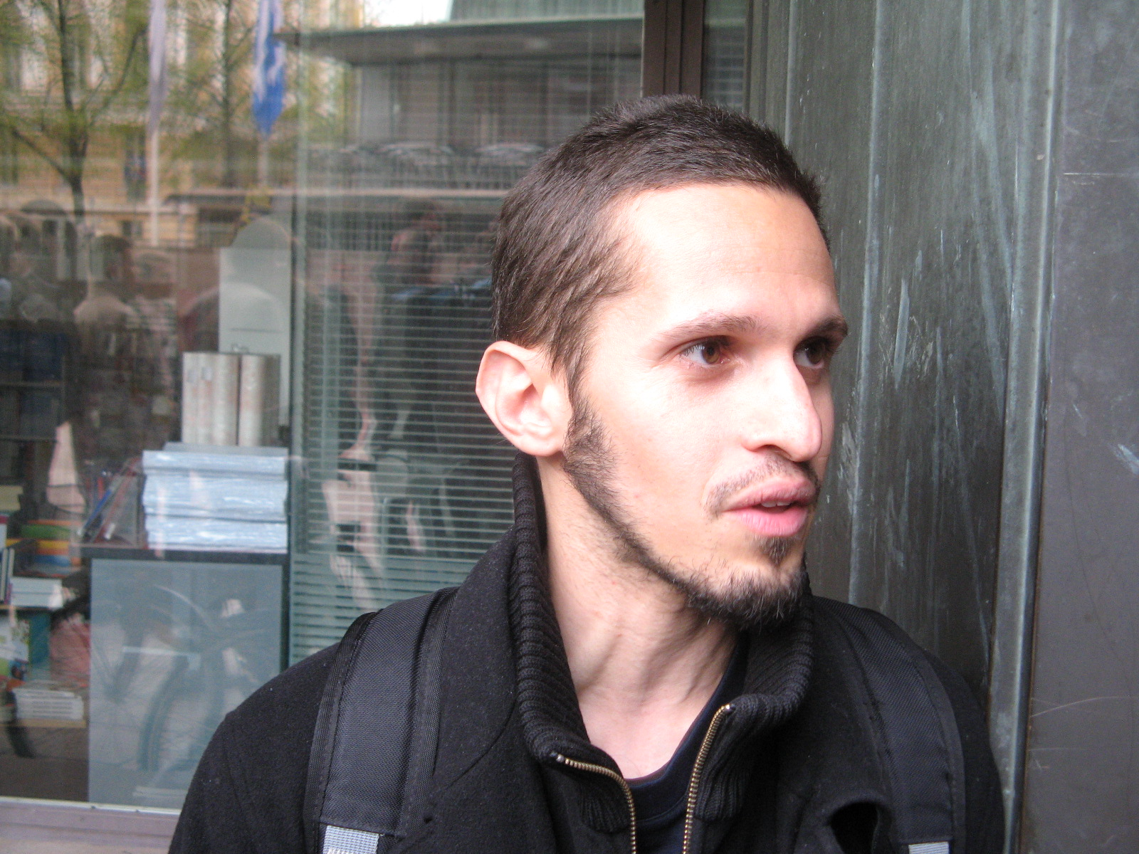 Patri Friedman of the Seasteading Institute in Helsinki on 13th May 2011.